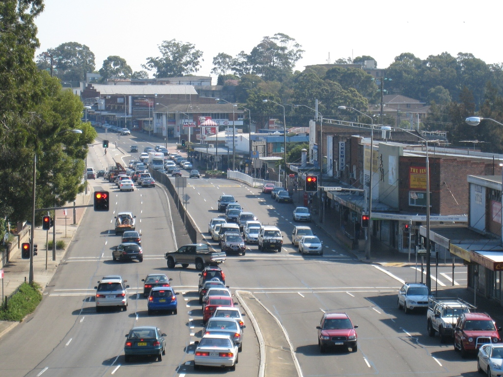 View of Yagoona Town Centre on top of Yagoona bridge. I know that the picture quality is not ideal, I'll endeavour to get a new pic sometime soonHectic18 05:29, 19 April 2007 (UTC) Ok, i've taken a new image today =) Hectic18 04:34, 21 April 2007 (UTC)